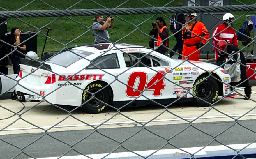 Ronnie Bassett Jr. on pit road at Dover International Speedway